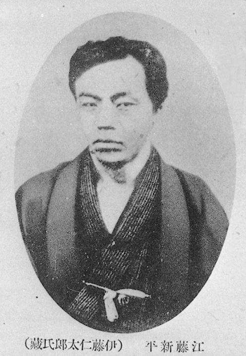 Portrait of Eto Shinpei (江藤新平, 1834 – 1874)